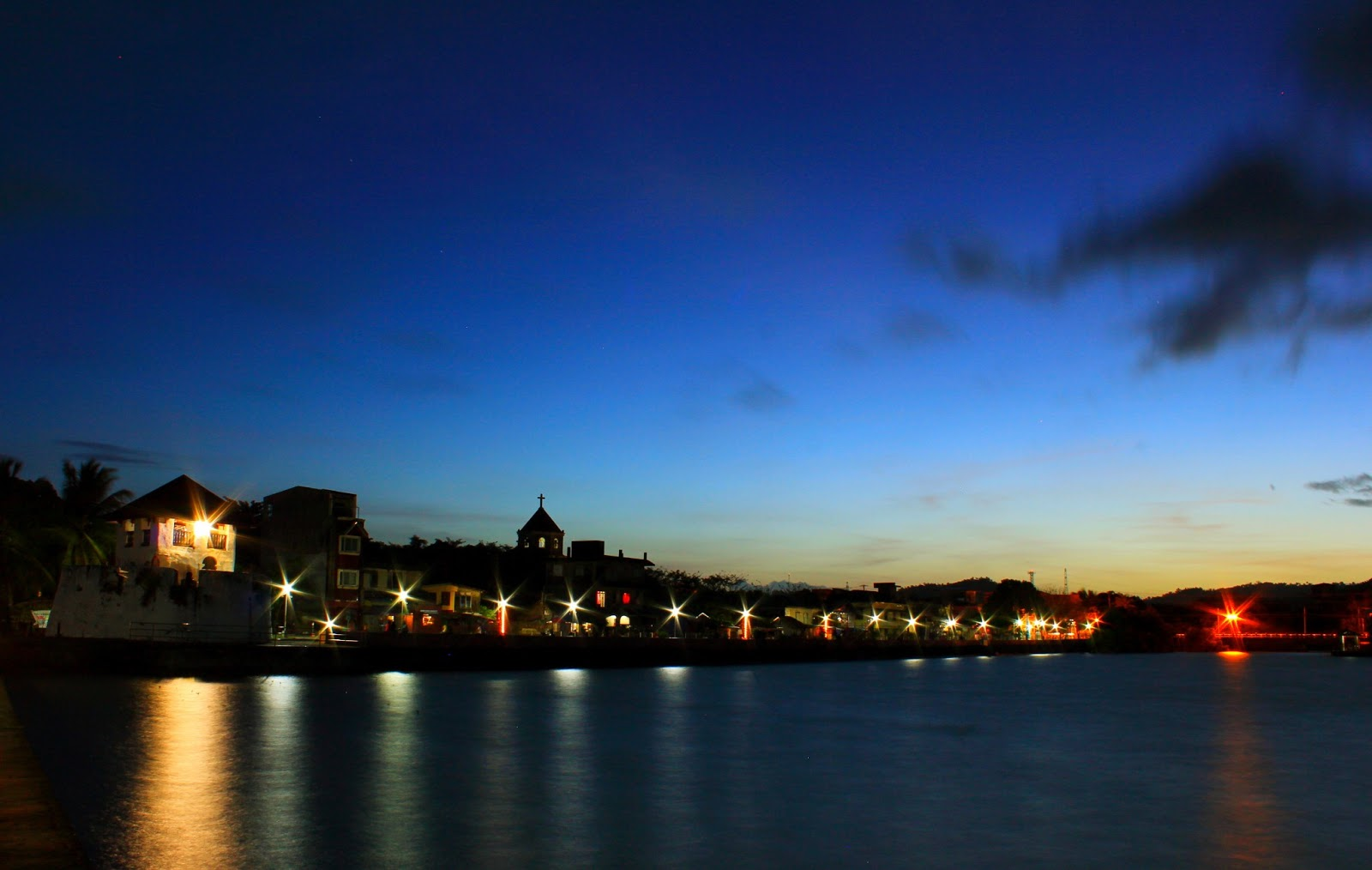 Nava Boulevard, or Muralla in Gumaca, Quezon. Landmarks visible are (from left to right) San Diego de Alcala Fortress, belfry of San Diego de Alcala Cathedral, Gumaca Baywalk, and Tañada Bridge. The area is in fact an estuary, where the Pipisik River connects with Lamon Bay.